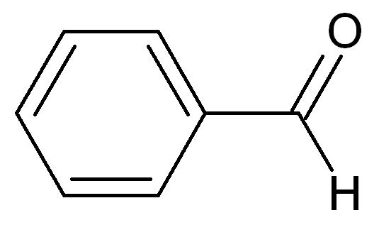 Benzaldehyde